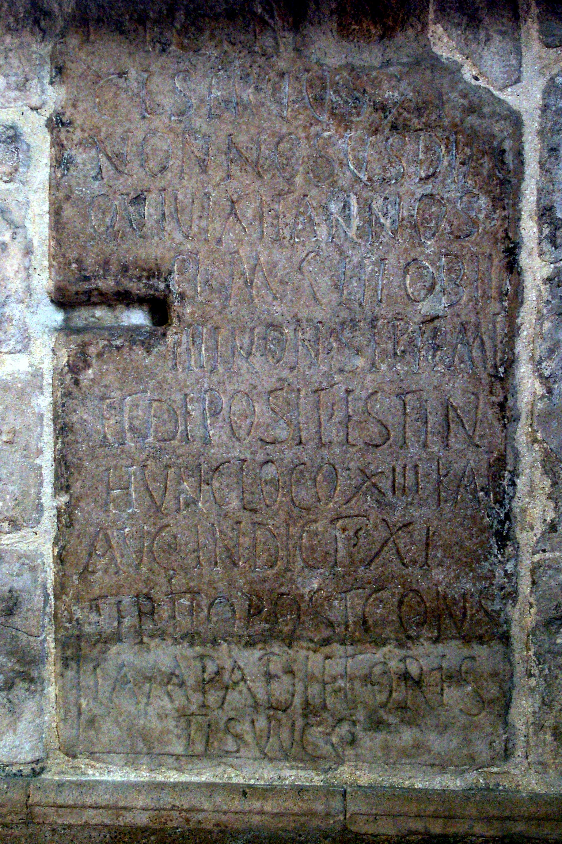 Church in Molzbichl near Spittal an der Drau / Carinthia / Austria / EU. The tombstone carries an early Christian inscription plate that reads: “Here rests the servant of Christ, Nonnosus, deacon, who lived more or less for 103 years. He died on September 2 at this place died on July 20...three years after the consulate of the illustrious men Lampadius and Orestes [i.e. in 533].